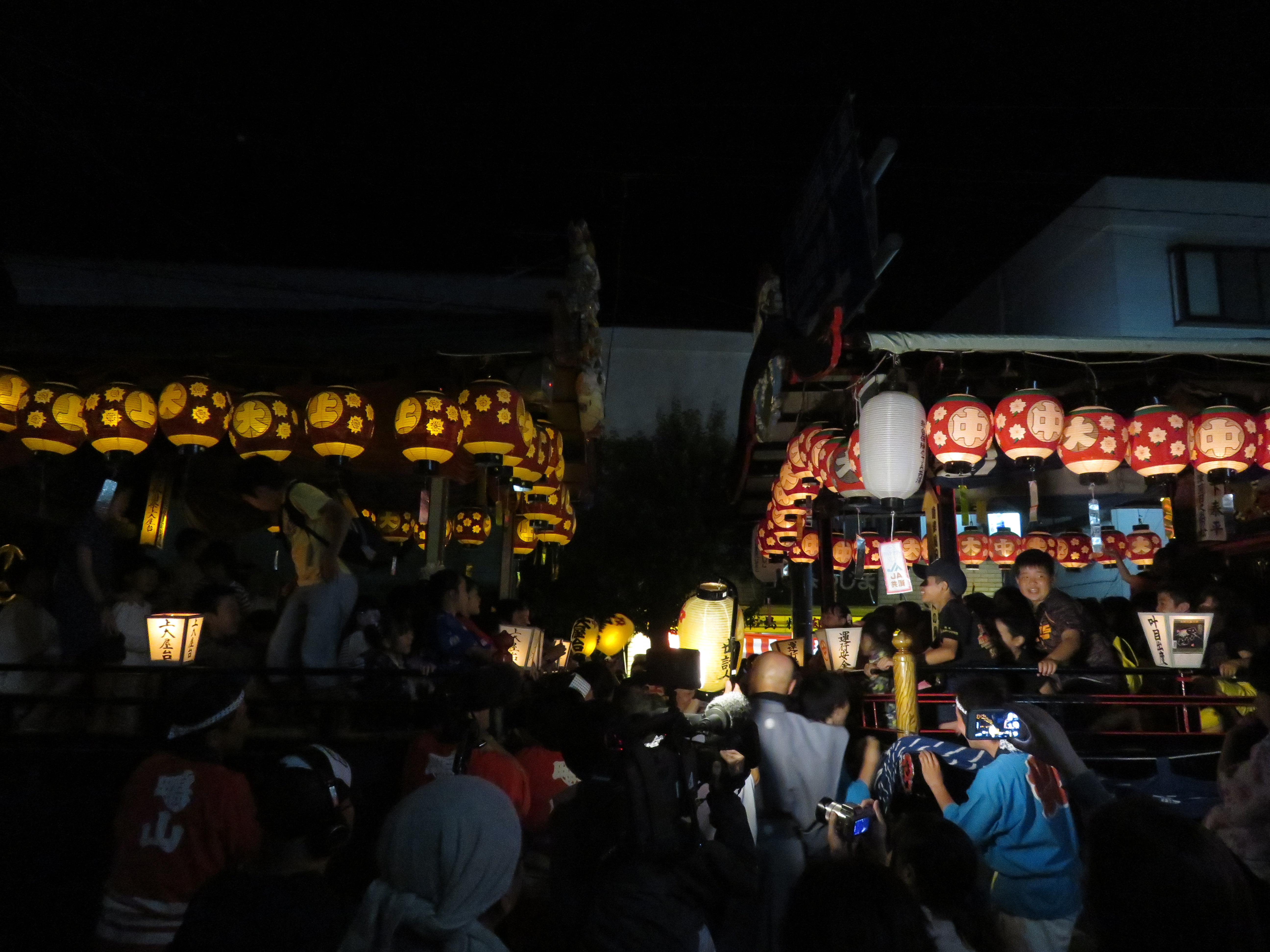 AizuTtajima Gionsai, Oyatai-unko,, Fukushima pref., Japan